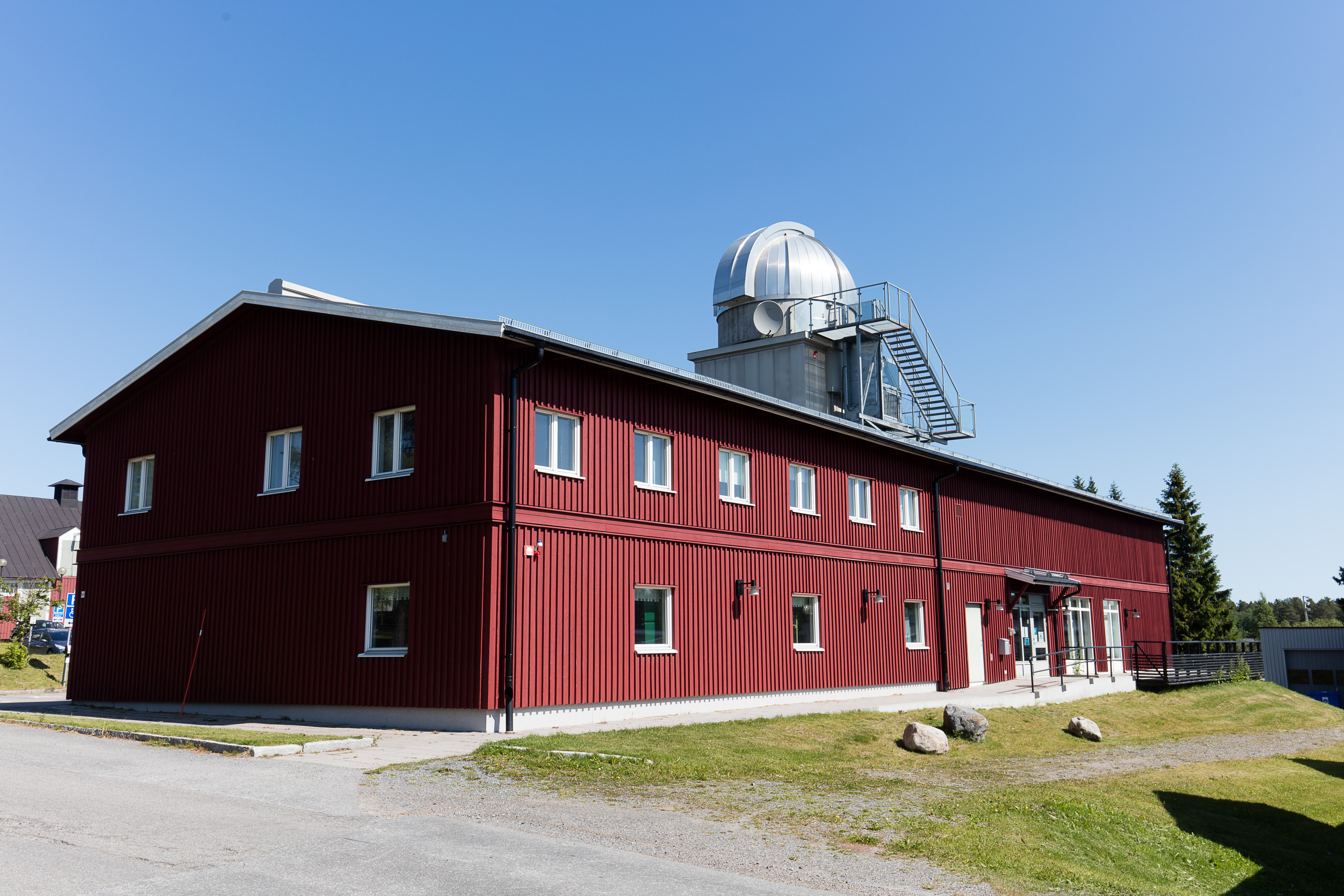 Umevatoriet is an observatory and planetarium at Umestan in Umeå, Sweden